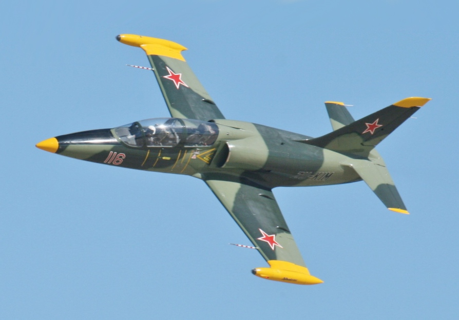 Civilian Aero Vodochody L-39 trainer flying low over the beach at Jeffrey's Bay